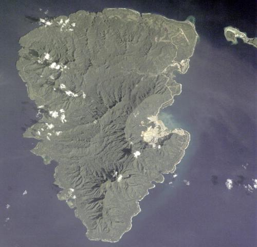 NASA Space Shuttle image of 20-km-long Lihir Island, north of New Ireland in Papua New Guinea. It is a complex of several overlapping Pliocene-to-Holocene stratovolcanoes, the youngest of which is Luise volcano.